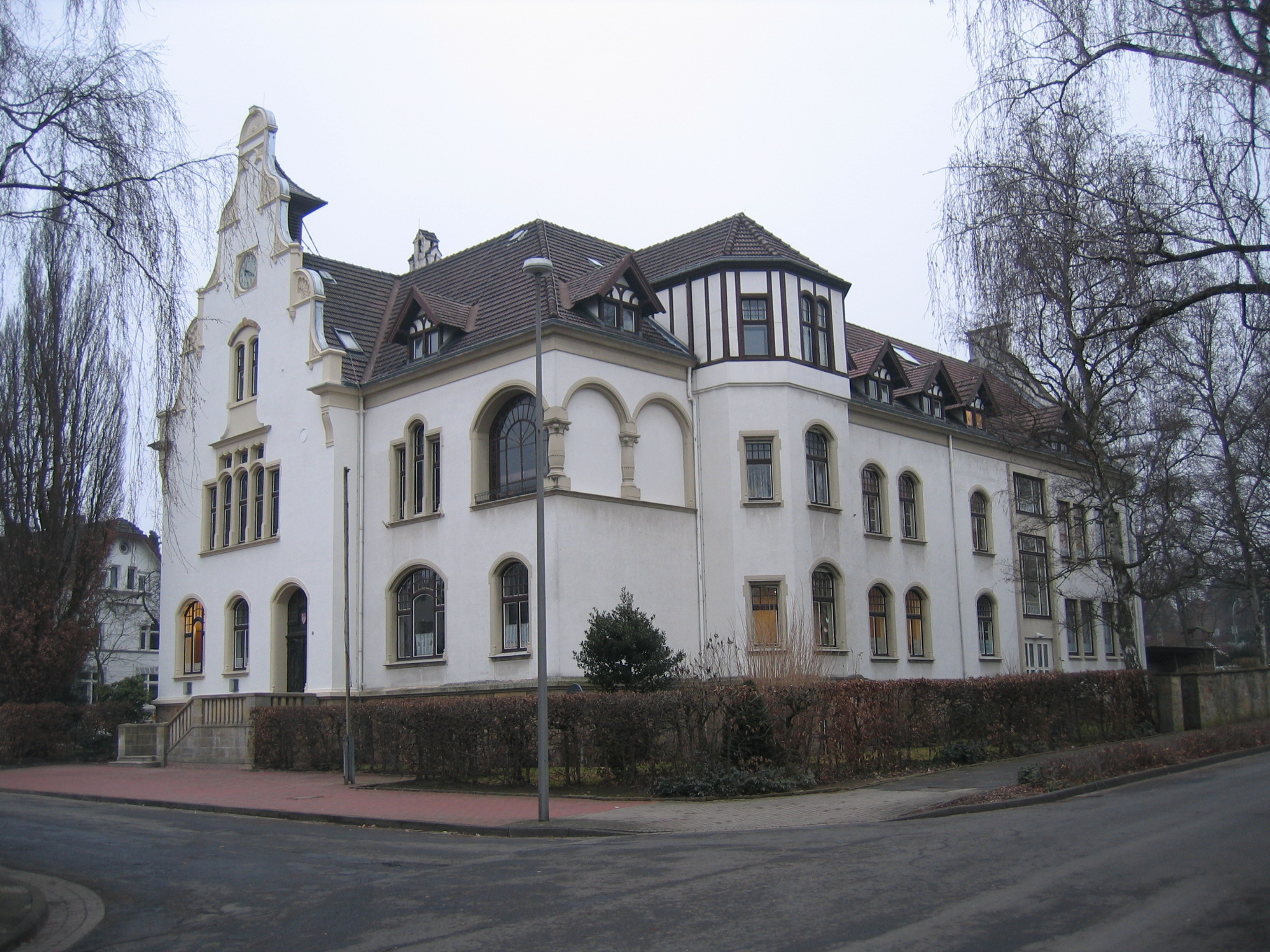 Former town hall (now music school) in Bünde, District of Herford, North Rhine-Westphalia, Germany.